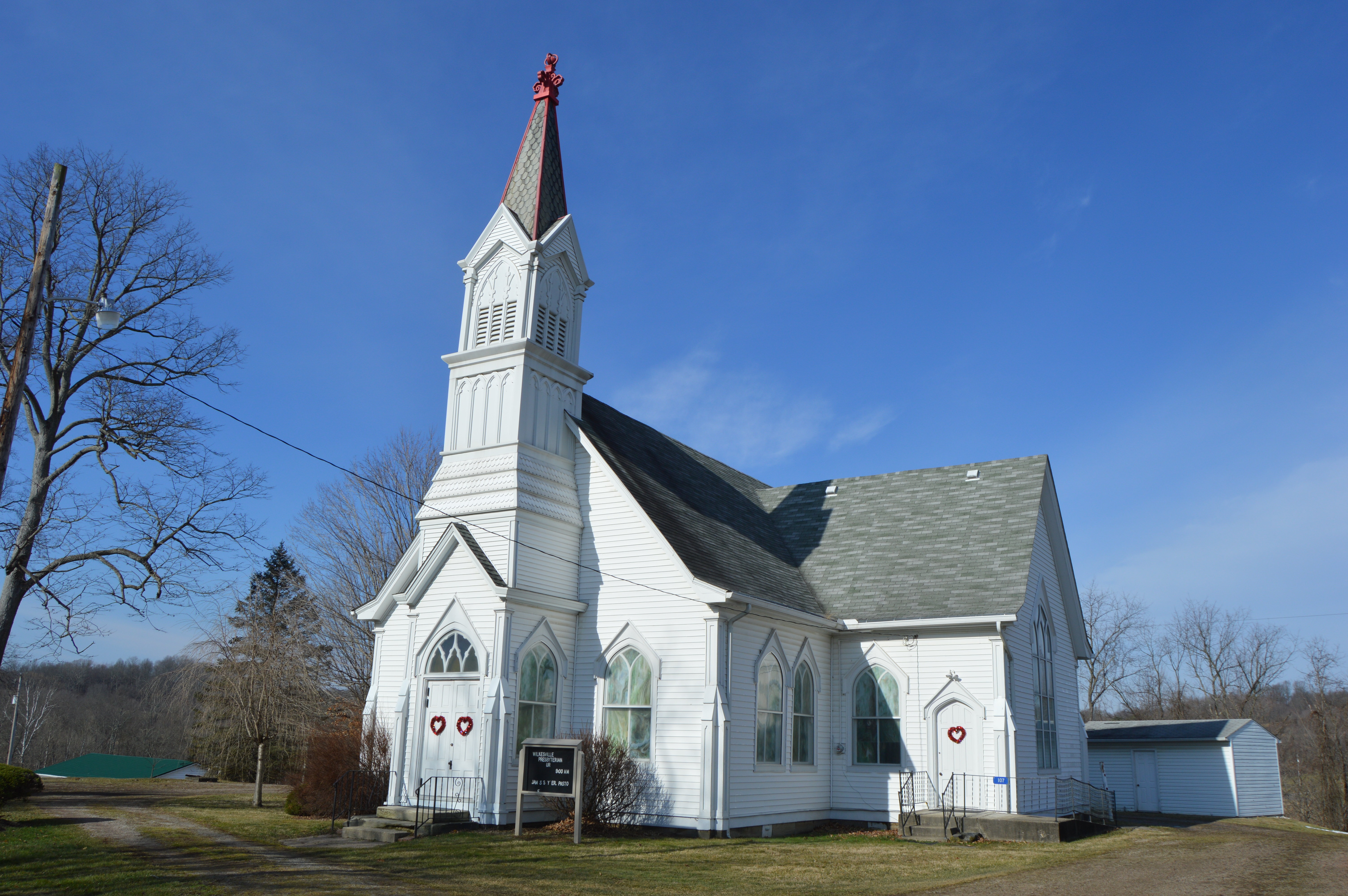 Front and northeastern side of the Wilkesville Presbyterian Church, located at 107 S. High Street in Wilkesville, Ohio, United States. It was constructed after an 1885 fire destroyed the previous structure.